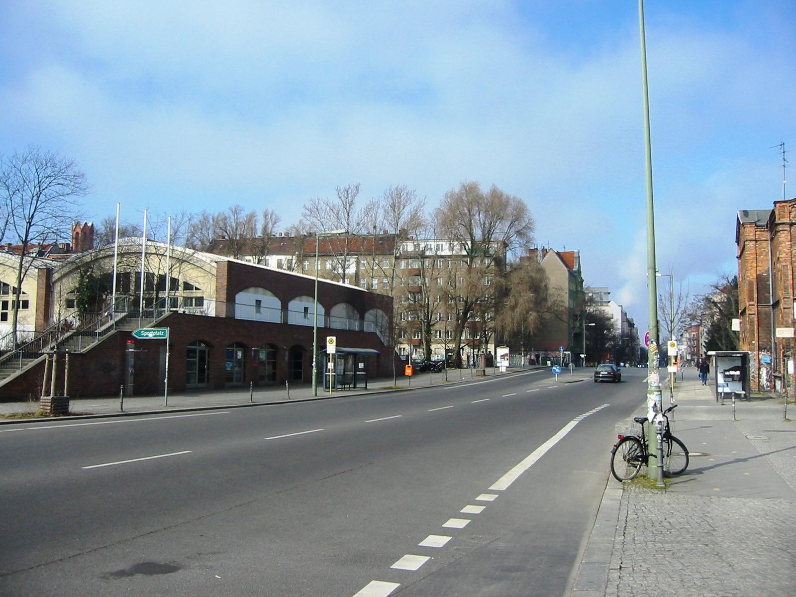 Vor dem Schlesischen Tor in Berlin-Kreuzberg (Germany)